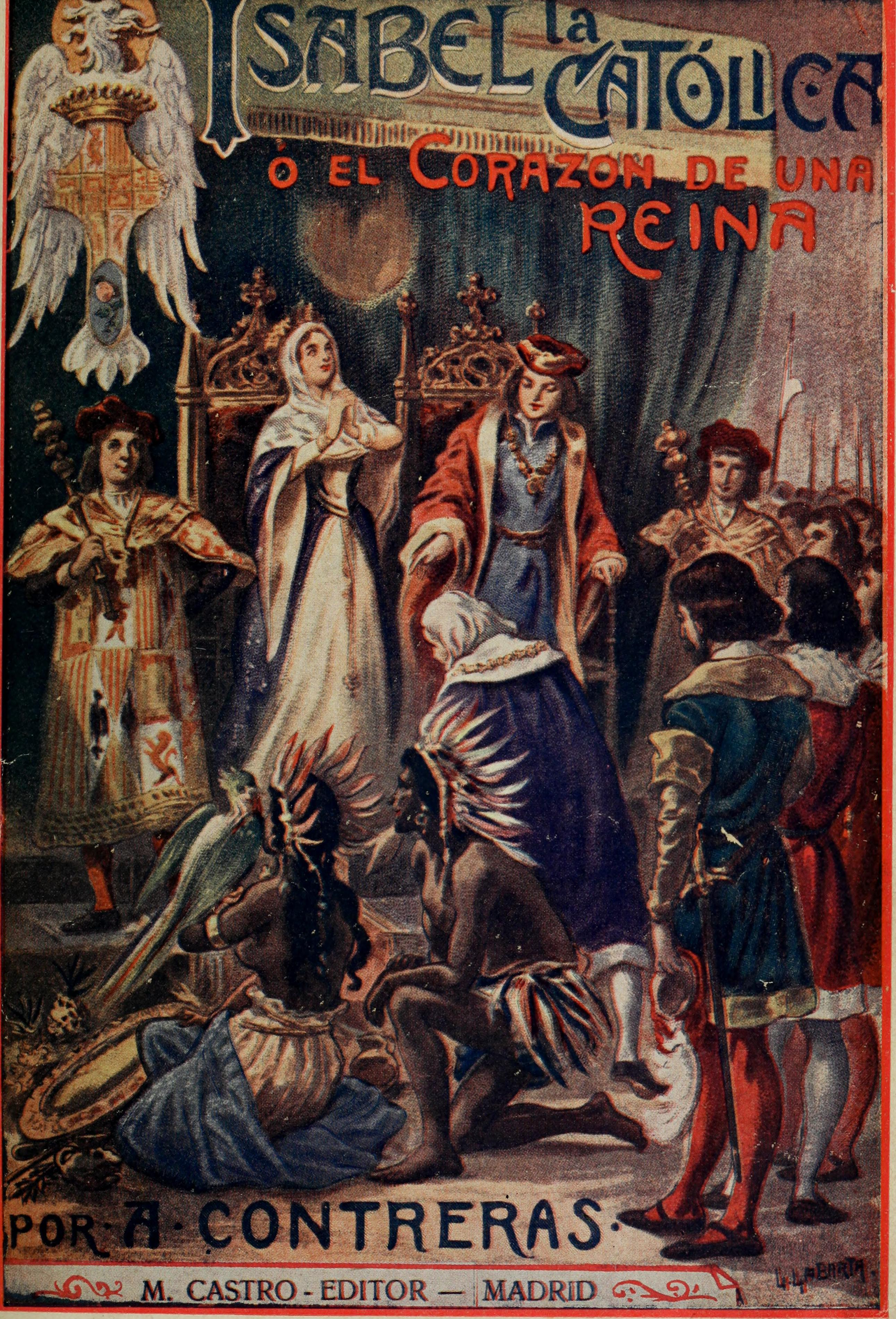 Title: Isabel la Católica; ó, El corazón de una reina, novela histórica; ilustraciones de L. Labarta Year: 1900 (1900s) Authors: Contreras, Antonio Subjects: Publisher: Madrid, Castro Text Appearing Before Image: Acmé Library Card PocketLOWE-MARTIN CO. Limitbd .^-t!?n ?»■ V, *■■ -^^If v-^^-M-^- : -:,j*»- -I^ Text Appearing After Image: Cuaderno 1. 30 céntimos. CL^GAAMANUEL CASTRO.—EDITOR (Antes Viuda de Cruz) 1.=^ . • / / ISAiisabellacatlicae01cont